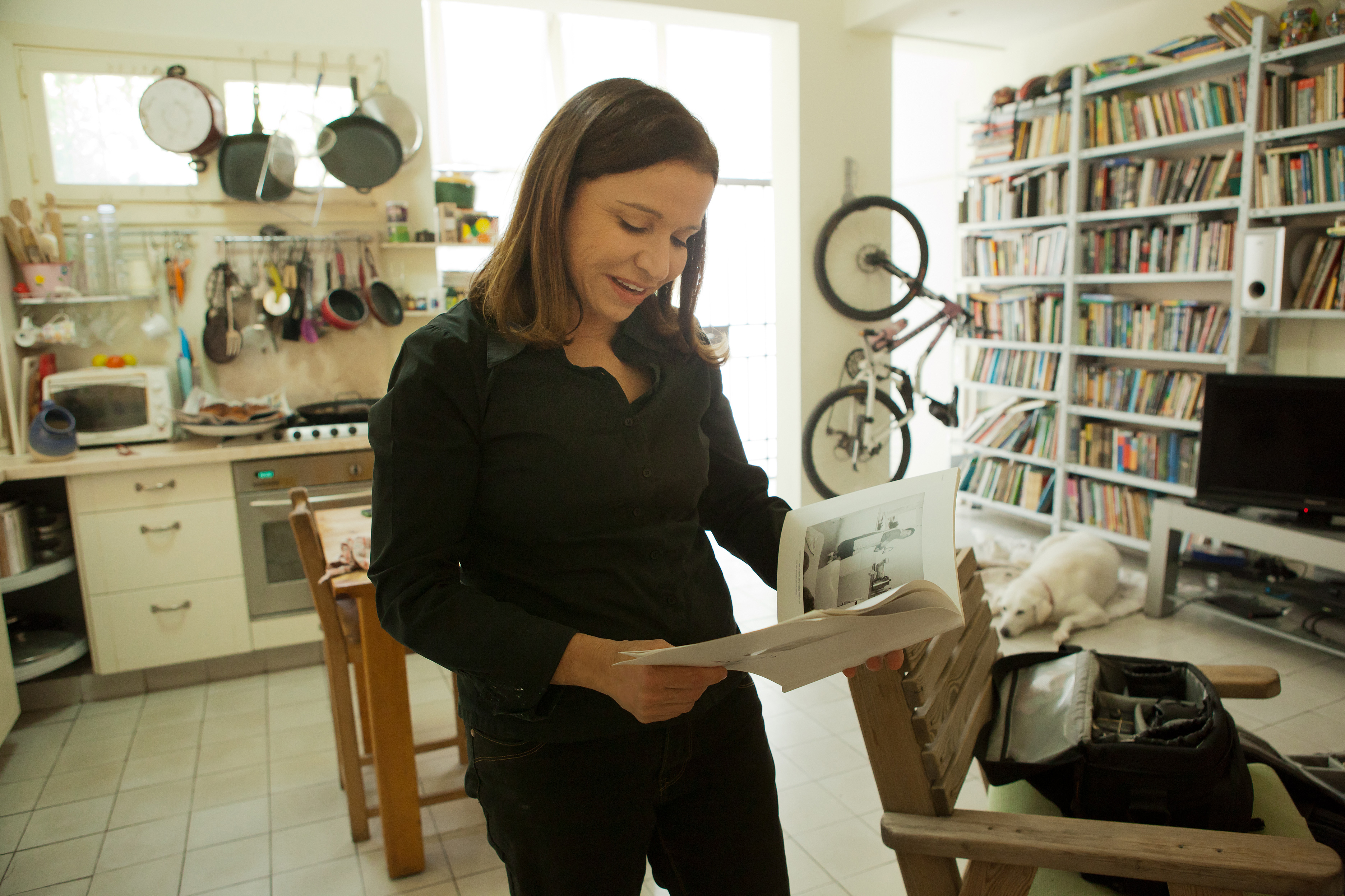 Shelly Yachimovich (Hebrew: שלי יחימוביץ׳, born 28 March 1960) is an Israeli journalist and politician. A member of the Knesset since 2006, she is currently leader of the Israeli Labor Party.